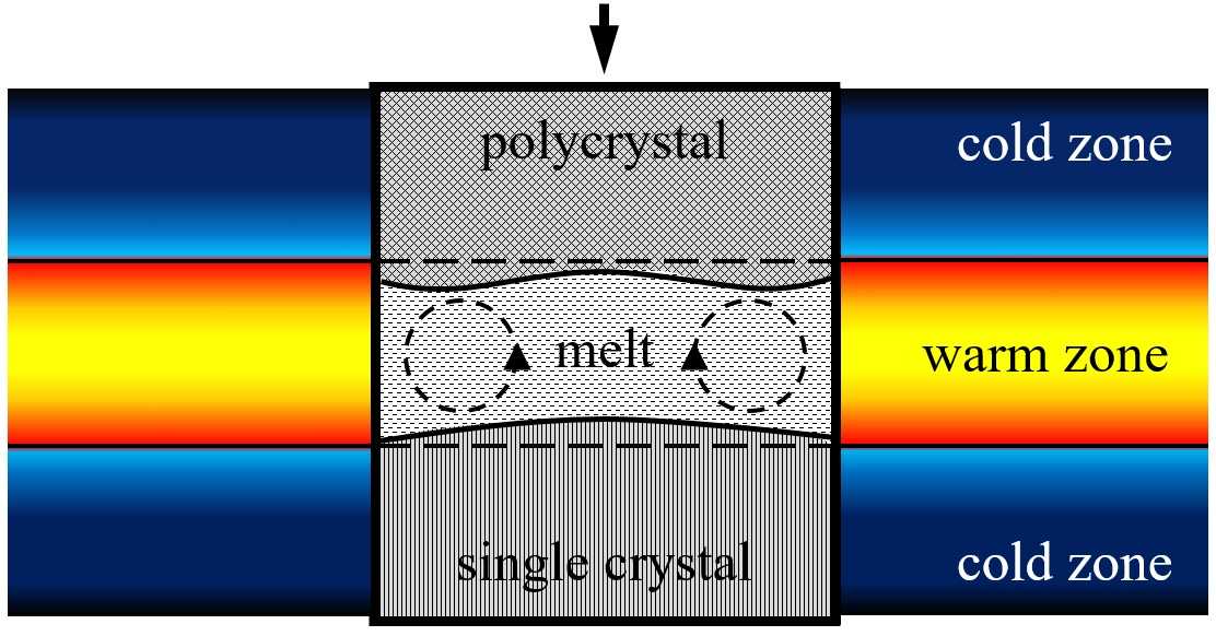 A diagram of the zone refining process, with the material moving through a warm zone (as opposed to the warm zone moving around the material).